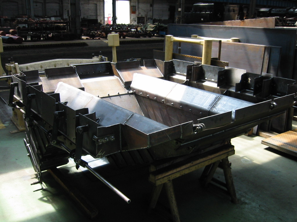 Ash pan type Stühren of a German steam locomotive